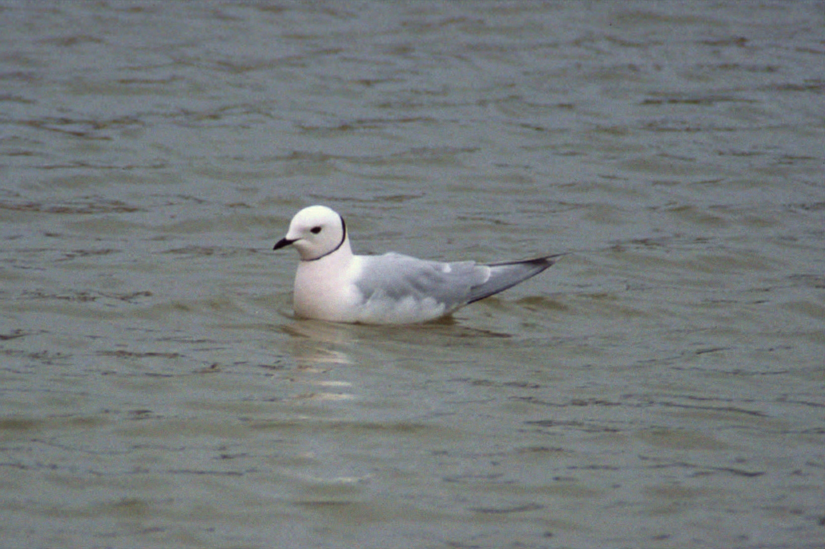 Ross's Gull (Rhodostethia rosea) Photographed in Churchill, Manitoba.